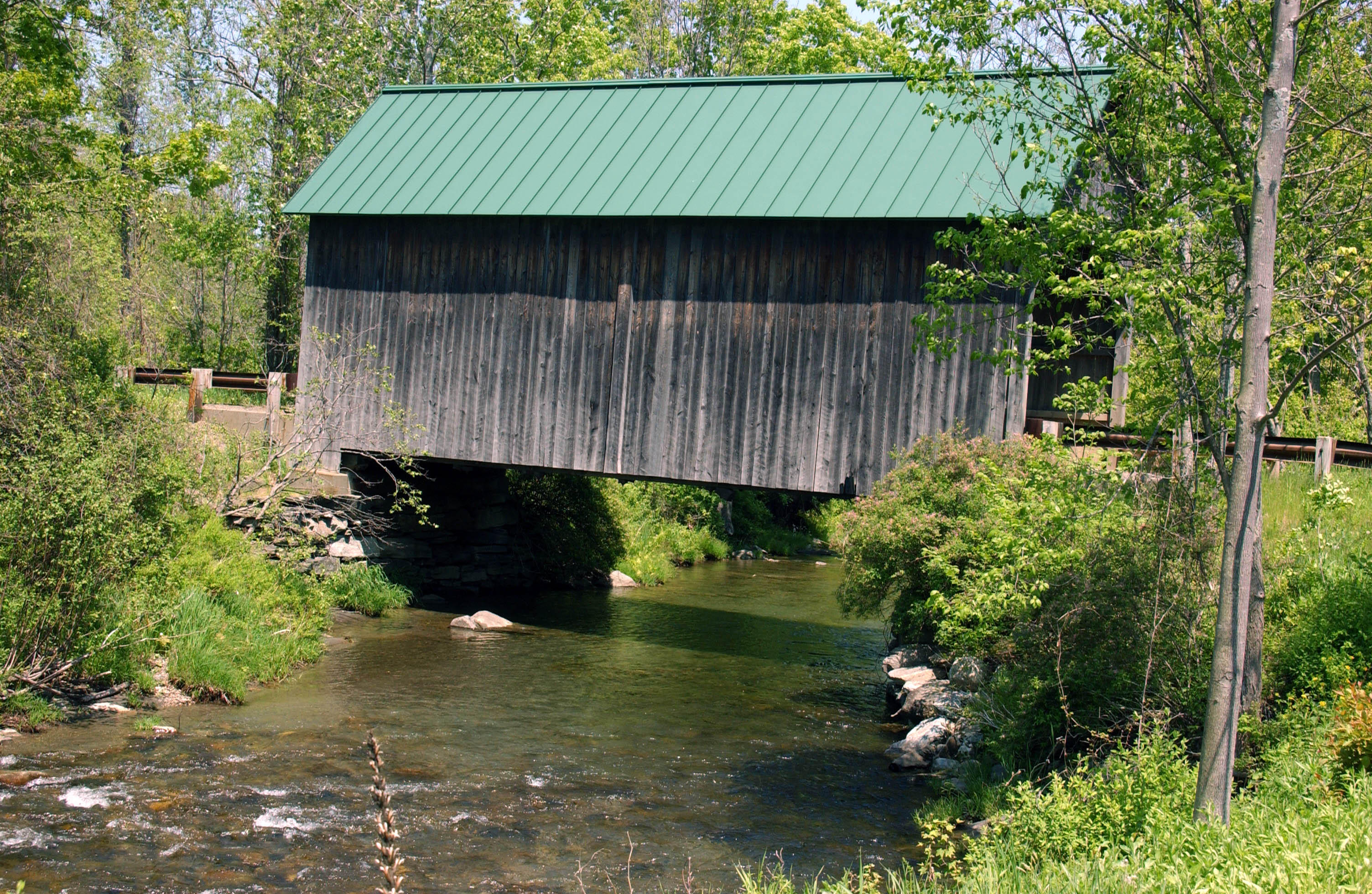 46’ TIED ARCH OVER MILL BROOK